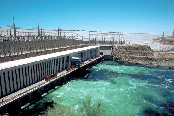 The Aswan Dam is an embankment dam situated across the Nile River in Aswan, Egypt